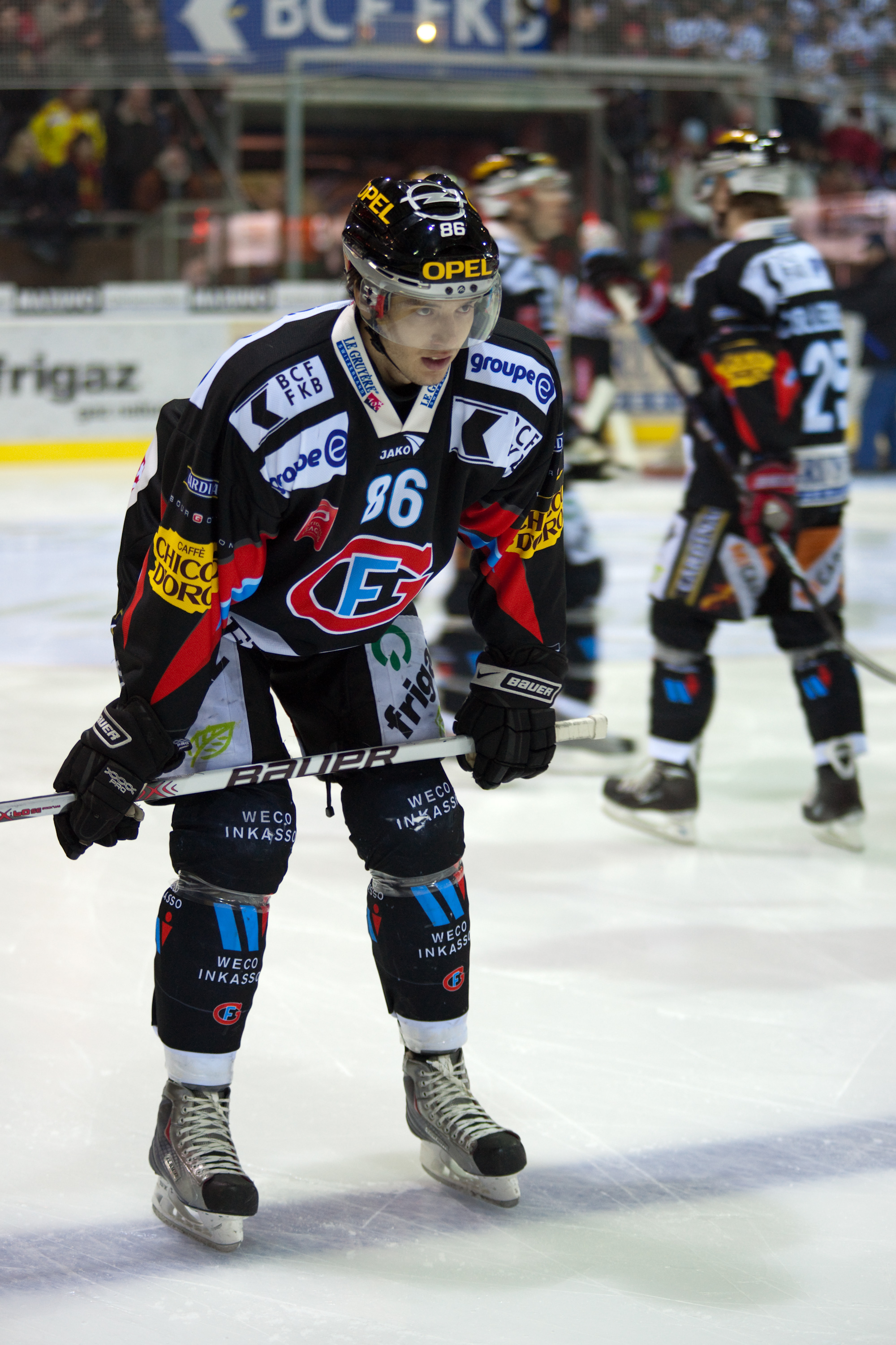 Julien Sprunger, Fribourg-Gottéron vs. Langnau Tigers, 15th January 2010.